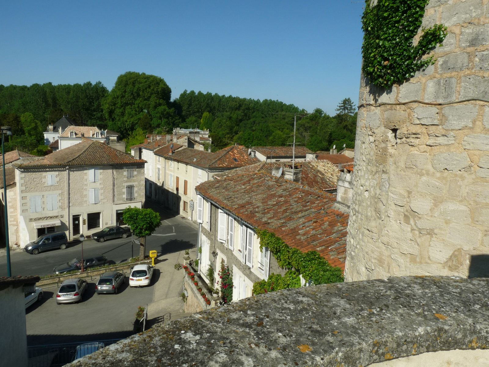 view from the old castle and keep of Montignac, Charente, SW France